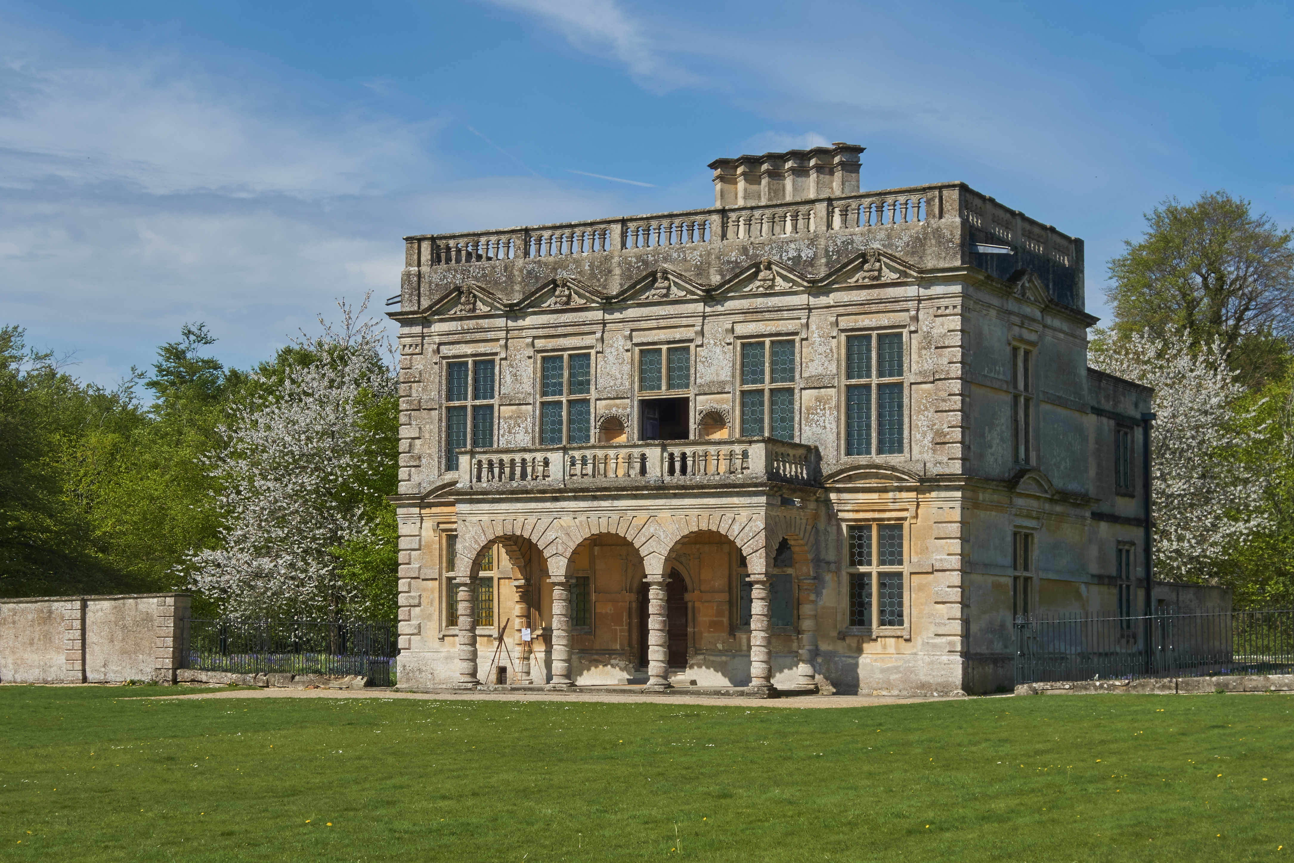 Lodge Park, Gloucestershire, May 2016 side view